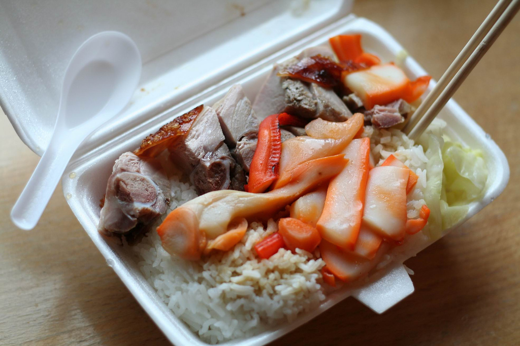 Far east faan hapyummp hk lunchbox